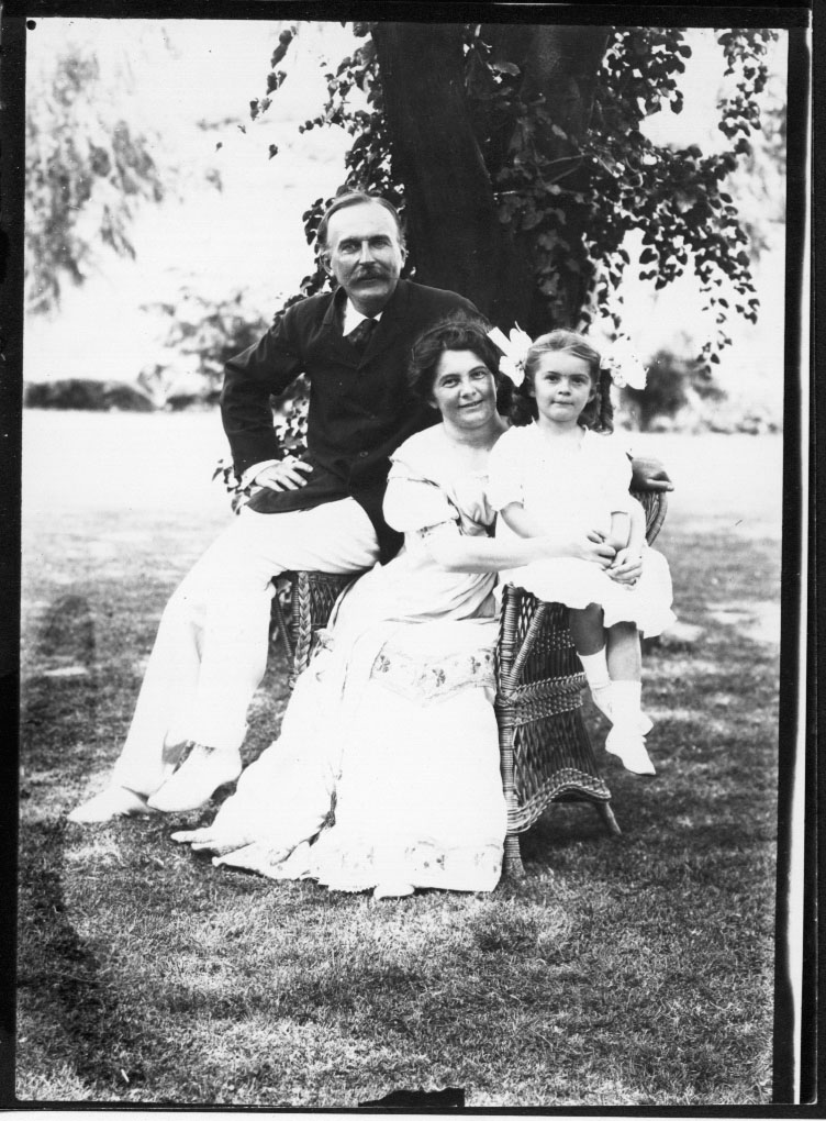 Eric Alfred Knudsen and family. Eric Alfred Knudsen (July 29, 1872 – February 12, 1957) was an American author, folklorist, lawyer and politician. He is most known for his writings and collections of short stories of and about Hawaiian folklore and culture.